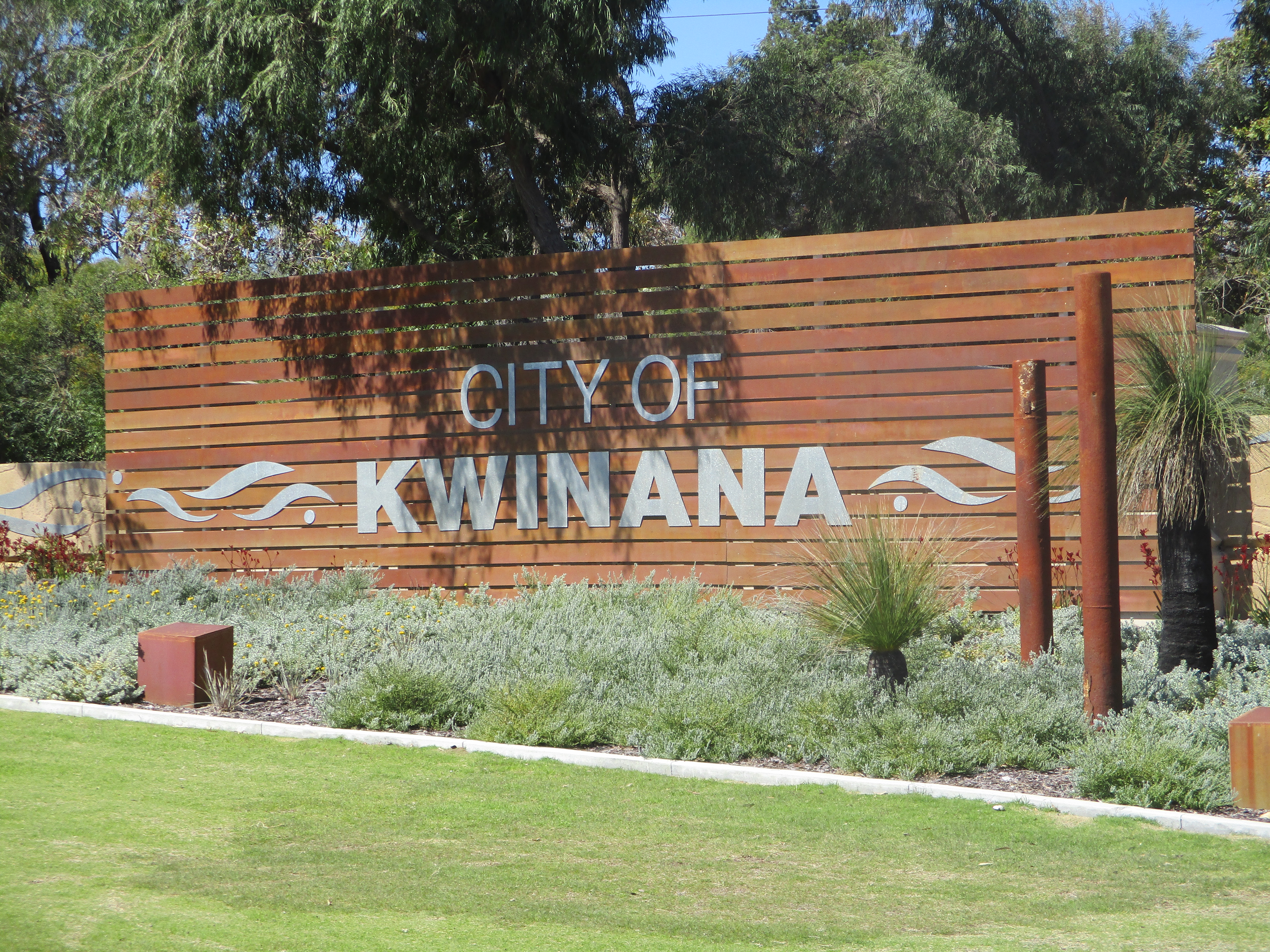 The City of Kwinana sign, Western Australia, at the intersection of Thomas Road and Rockingham Road.